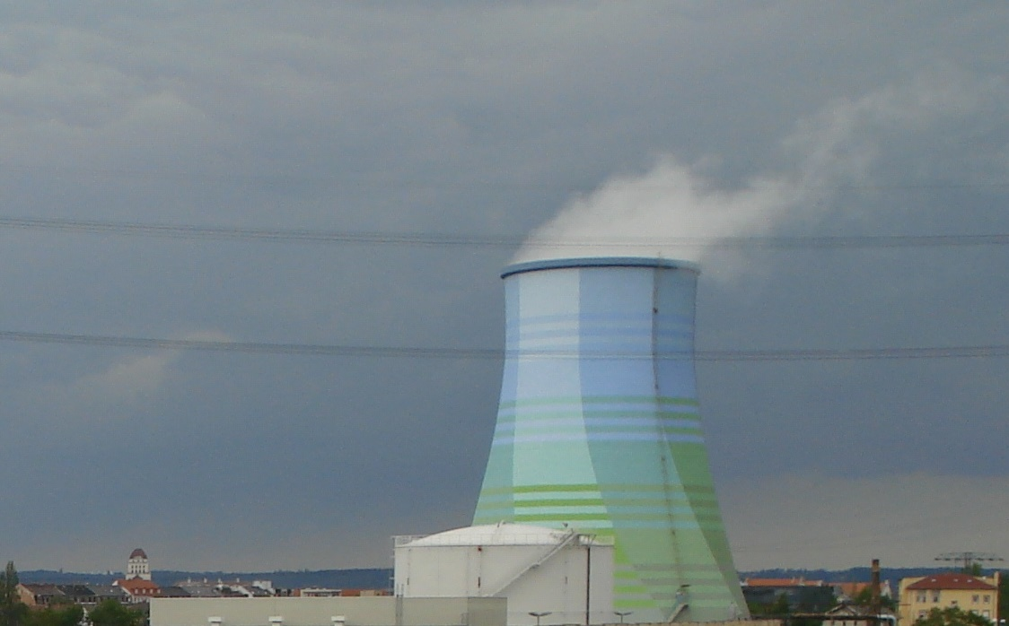 "Camouflaged" cooling tower of the power station Dresden.